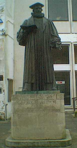 Statue of Archbishop George Abbot in Guildford High St